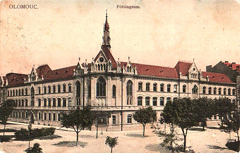 Pöttingeum building in Neo-gothic style in Olomouc, Czech Republic, Architect: Jakob Gartner